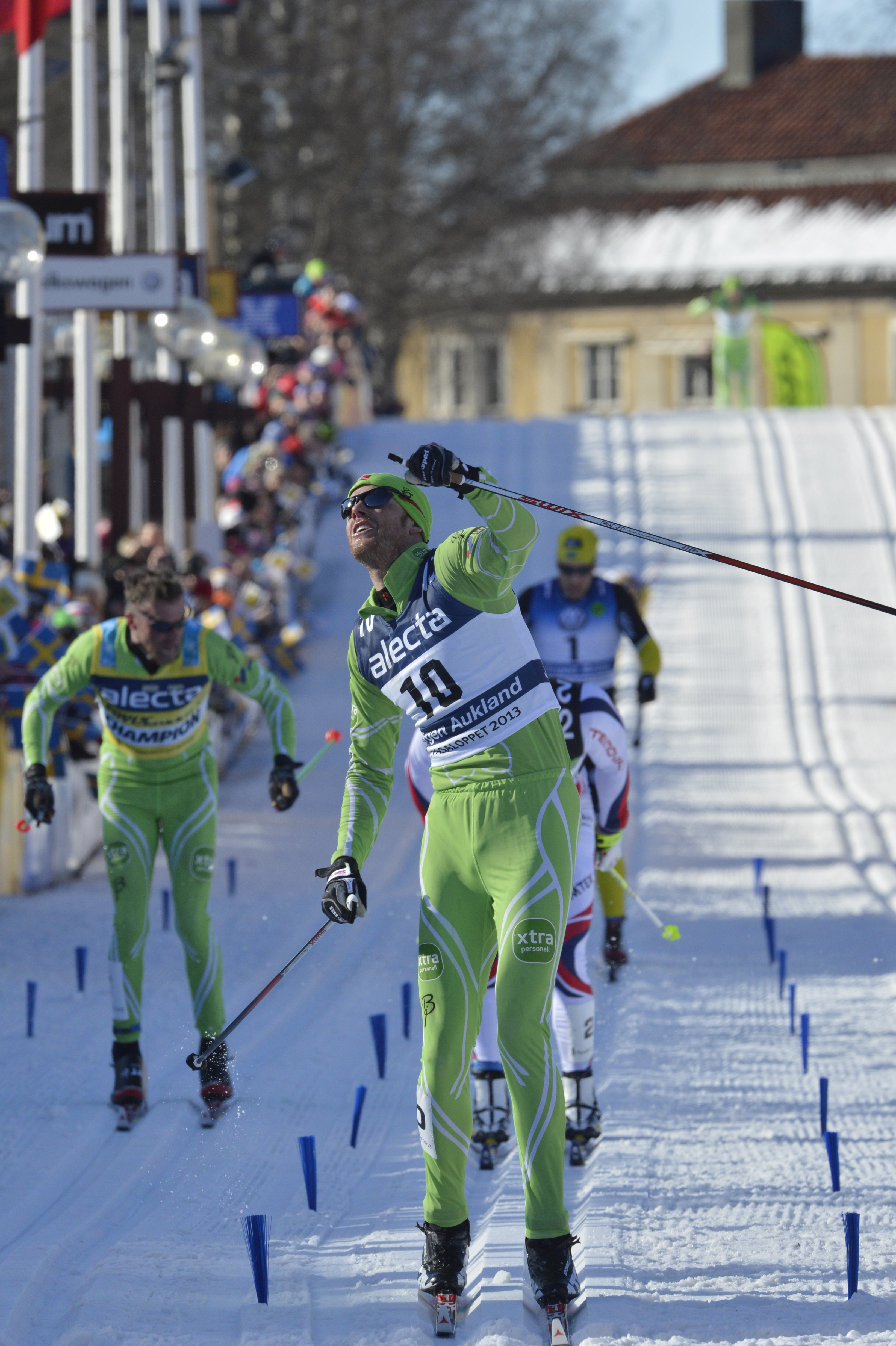 Norway's Jørgen Aukland wins Vasaloppet 2013.